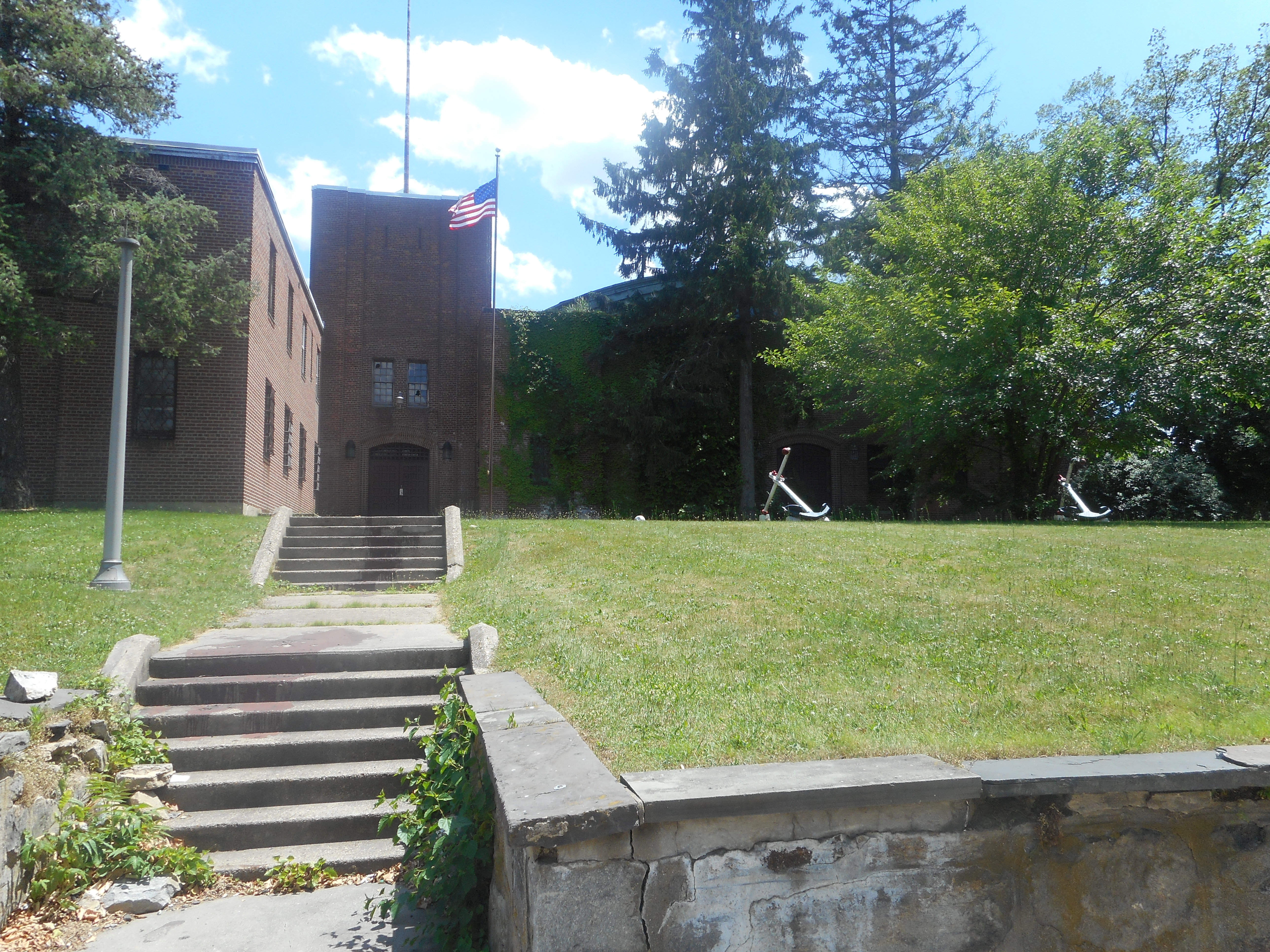 The historic New Rochelle Armory at 250 Main Street in New Rochelle, New York. More details to come later.